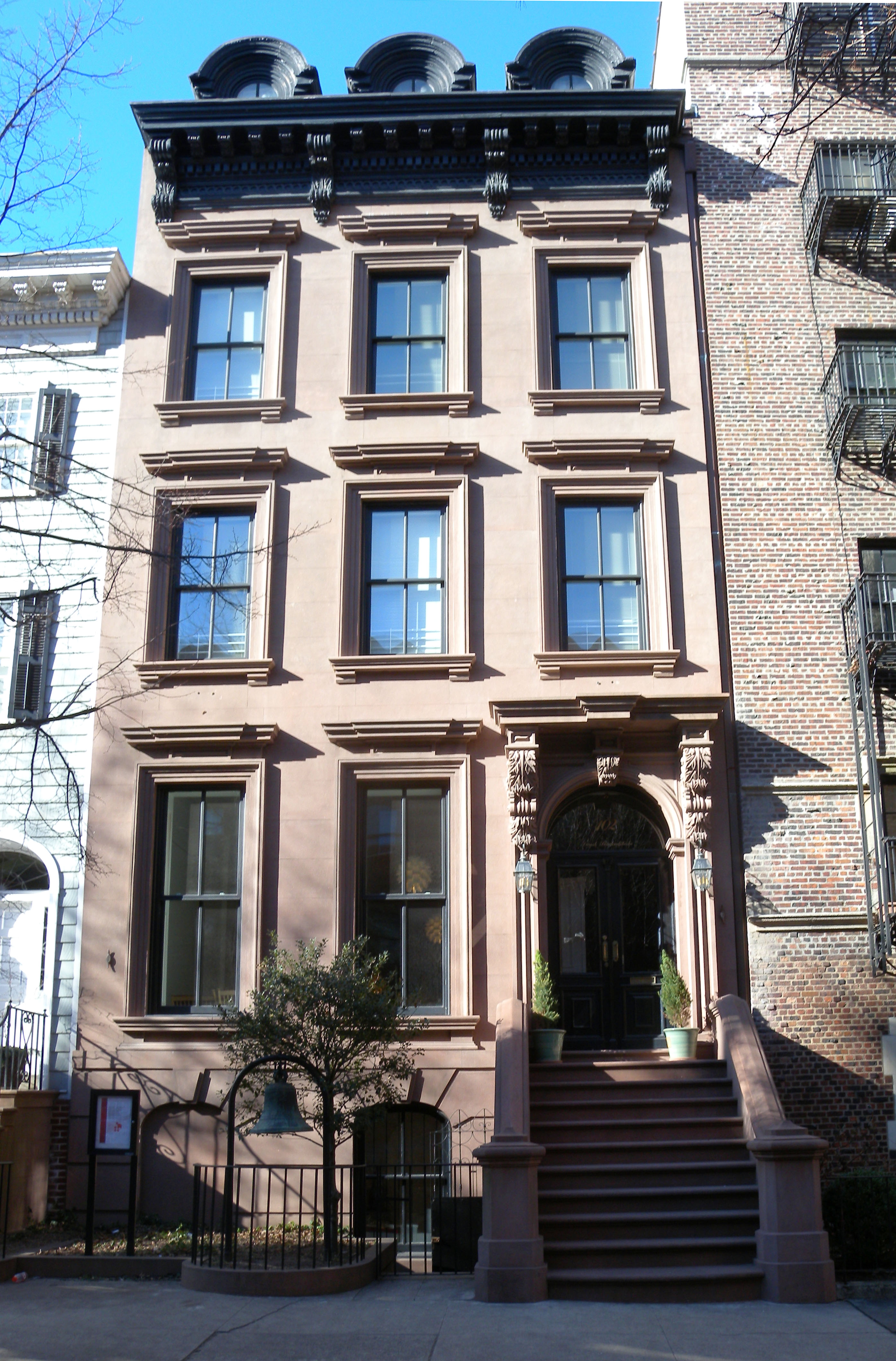 Looking west across Willow Street at Danish Seamen's Church on a sunny midday.